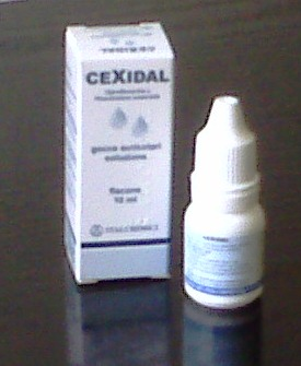 Otic ciprofloxacin from Italy